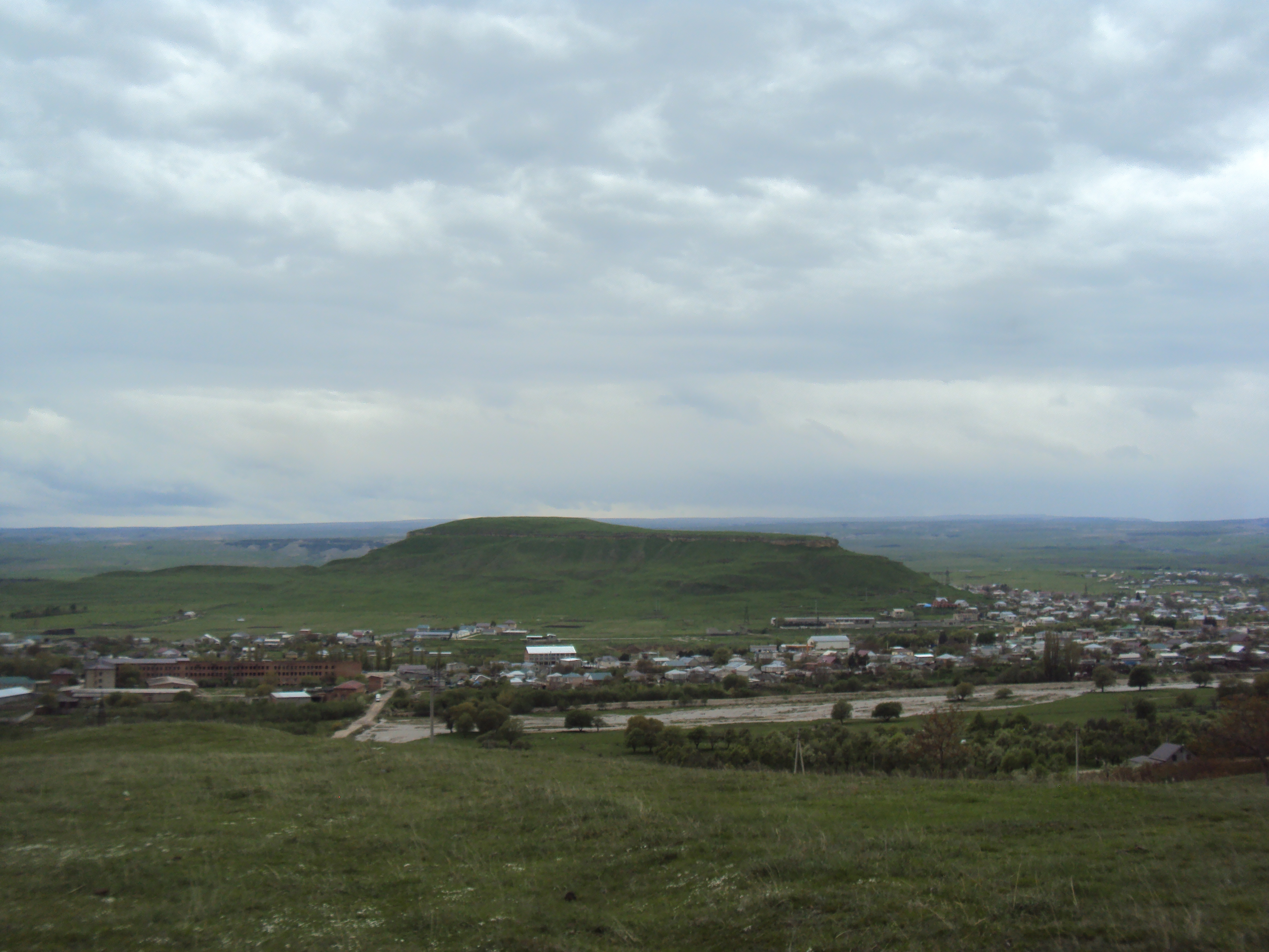 Rome mountain , malokaratchaevsky district. On top of this mountain in ancient times was a fortress of the Byzantines (rums). Over time, rum mountain was transformed into a rim - mount.